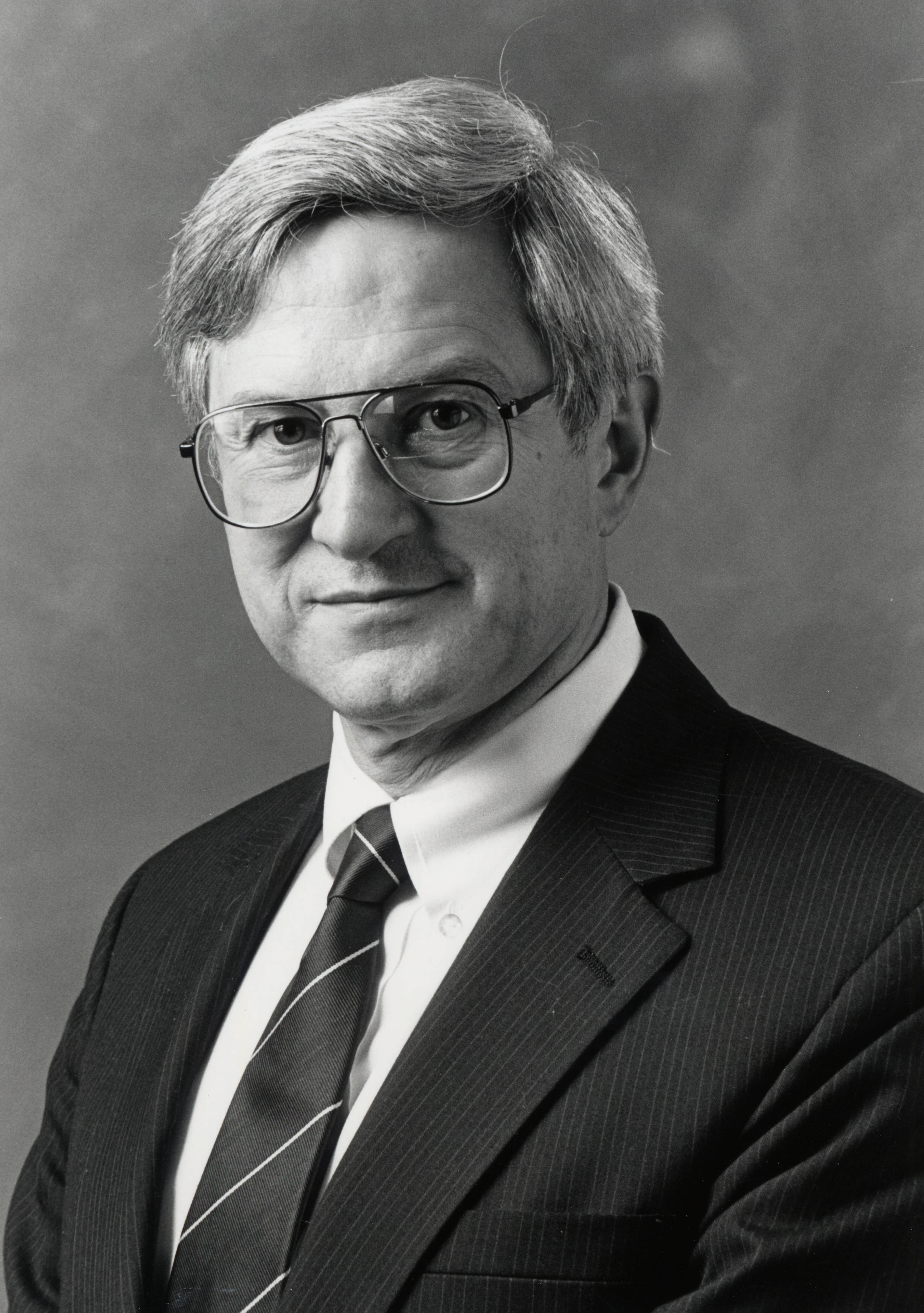 Richard L. Van Horn, former President of the University of Houston and University of Oklahoma